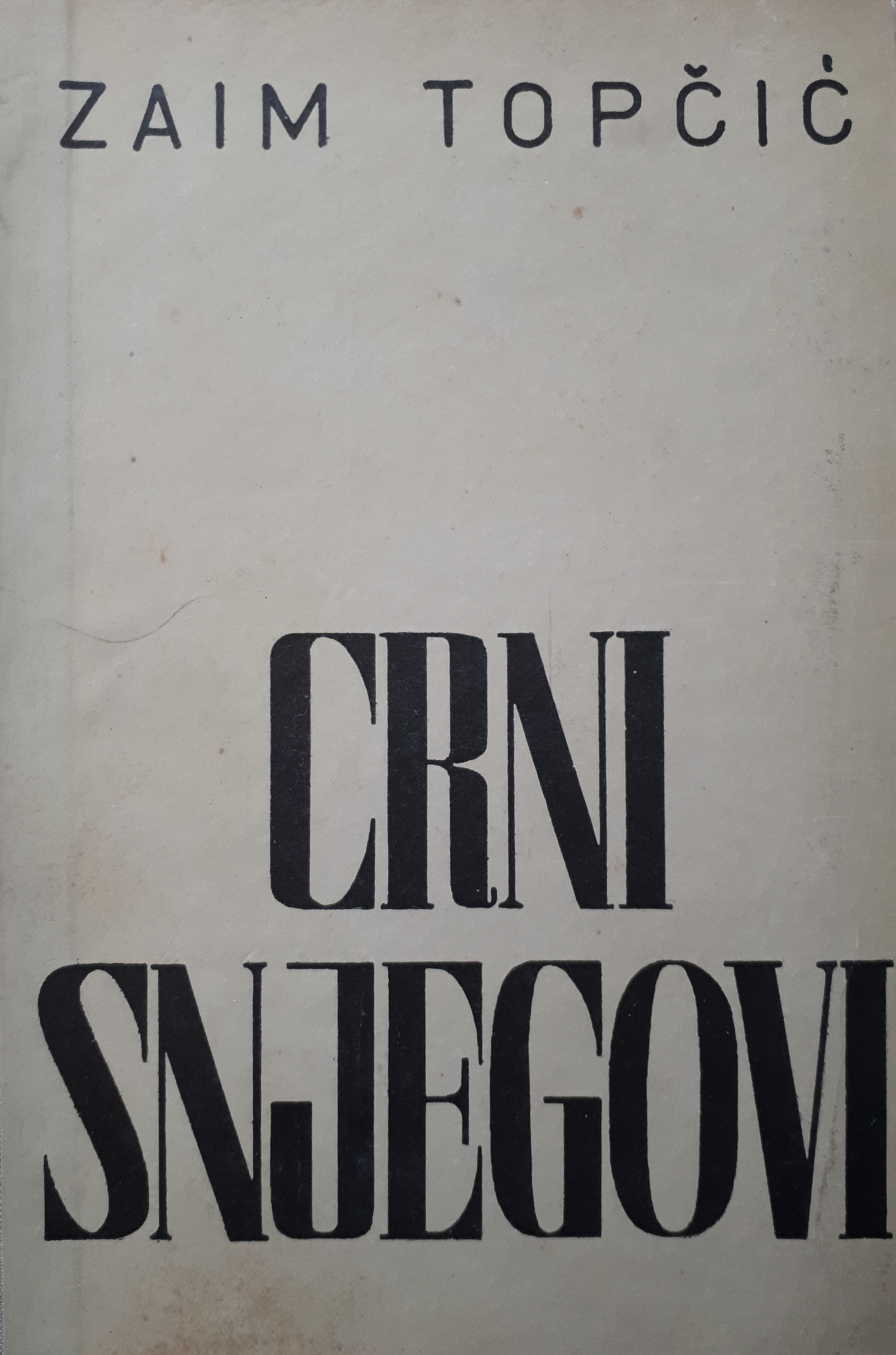 Book cover